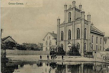 Gross-Gerau synagogue(Hesse - Germany), built in 1892, destroyed by the nazis in 1938